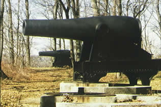 Picture of Fort Foote's two 15-inch Rodman Guns. Image courtesy National Park Service. (